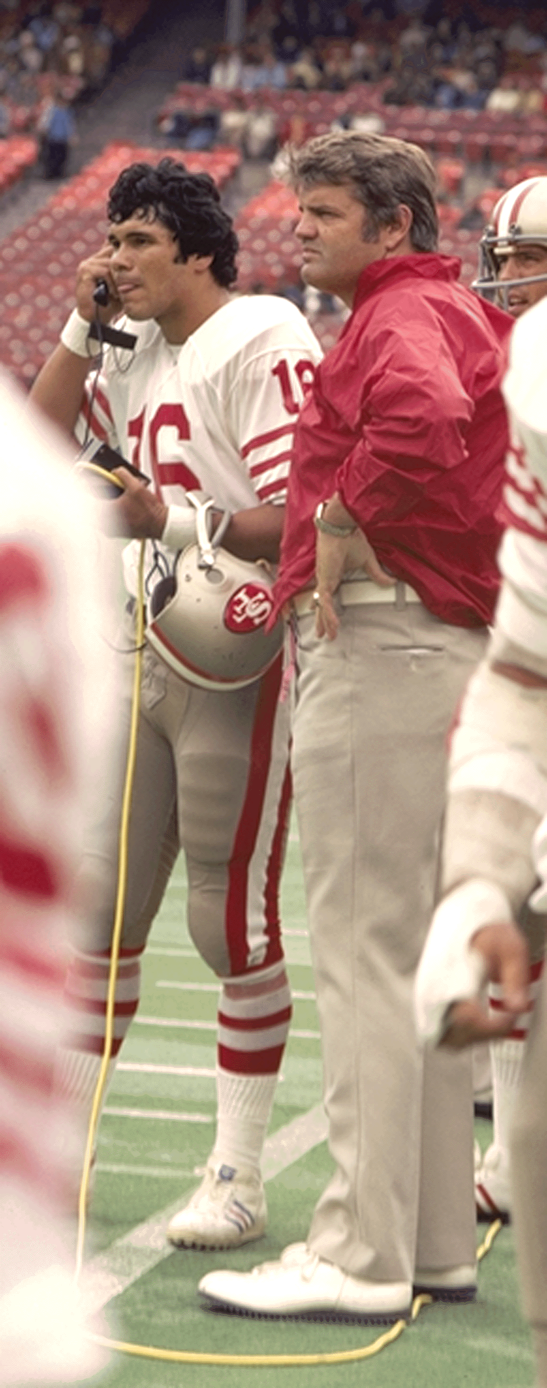 Jim Plunkett playing for the San Francisco 49ers